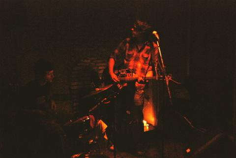 Music for Dead Birds performing live